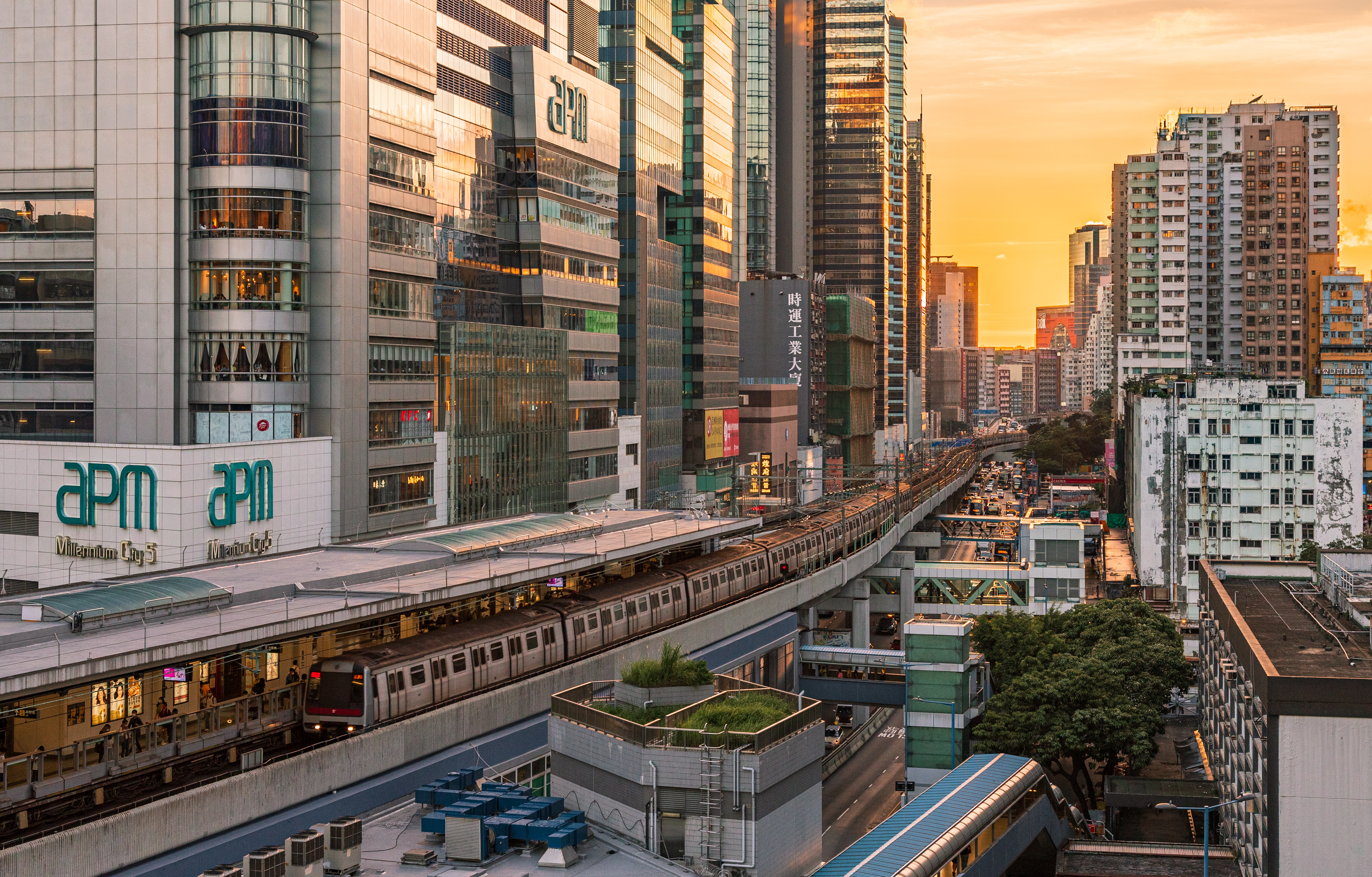 Kwun Tong Station